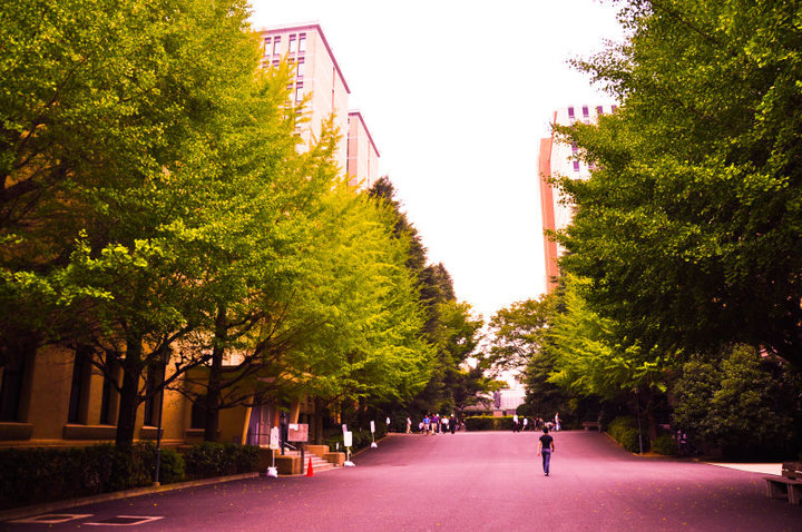 Inside Waseda University campus